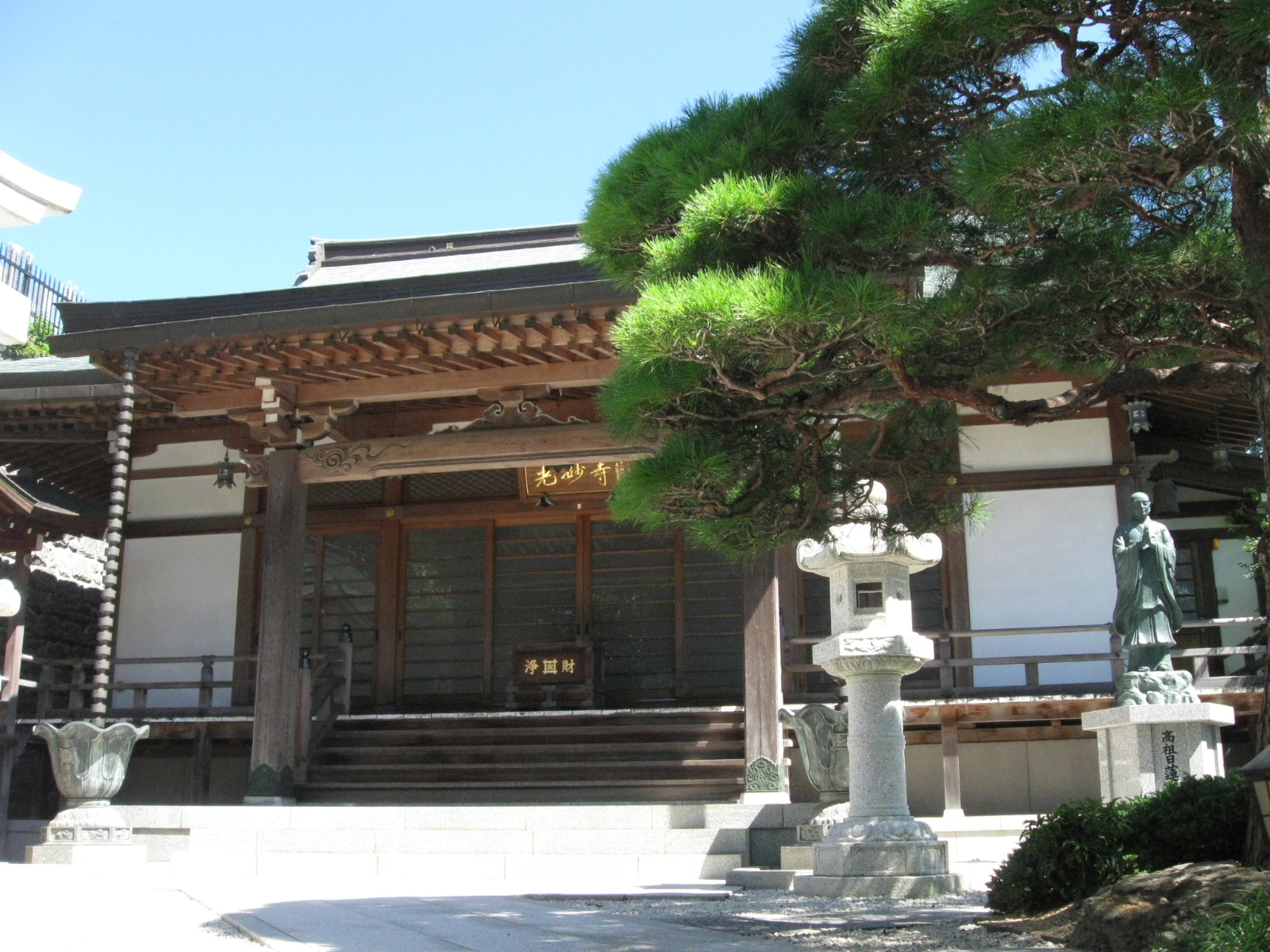 Kōmyō-ji is a temple of the Nichiren Shū in Fujisawa City, Kanagawa Prefecture, Japan.